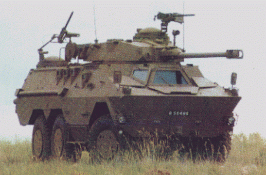 Cropped version of a previous Commons image. Ratel infantry fighting vehicle. Cropped for a template. Limited contextual relevance to original work.